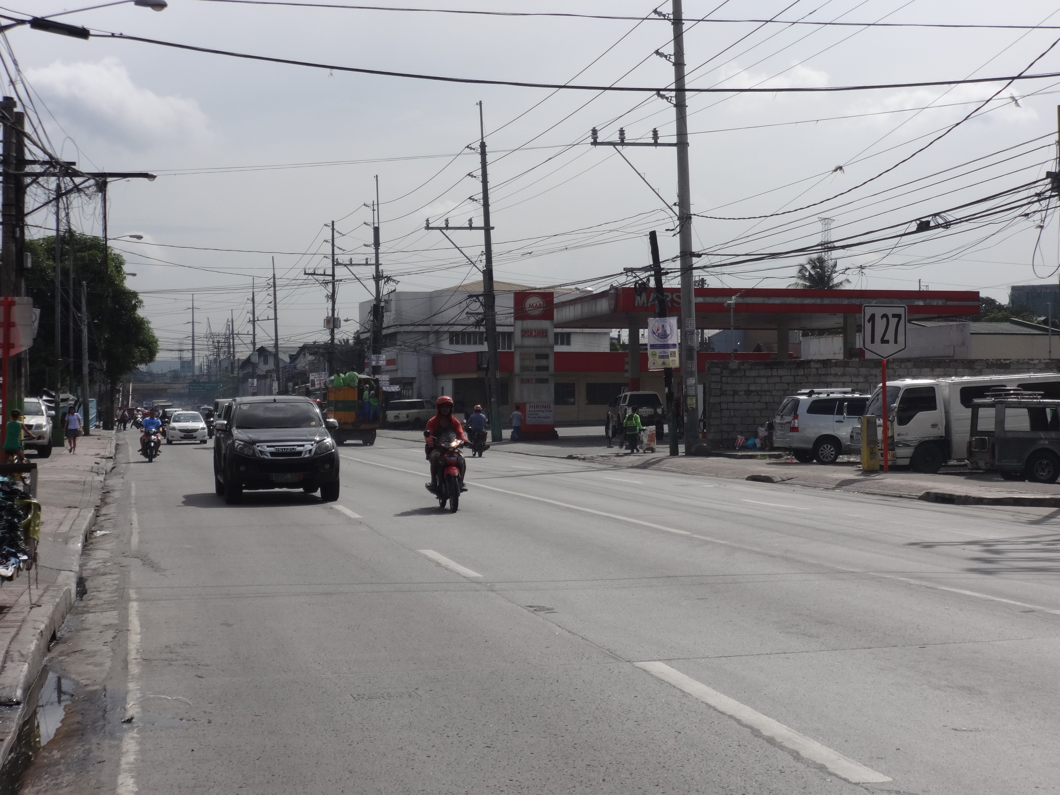 Quirino Highway in Baesa, Quezon City. This is part of Route 127